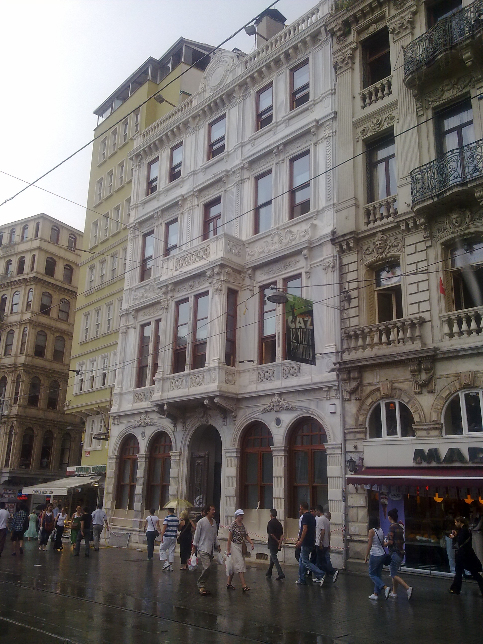 Galatasaray Museum